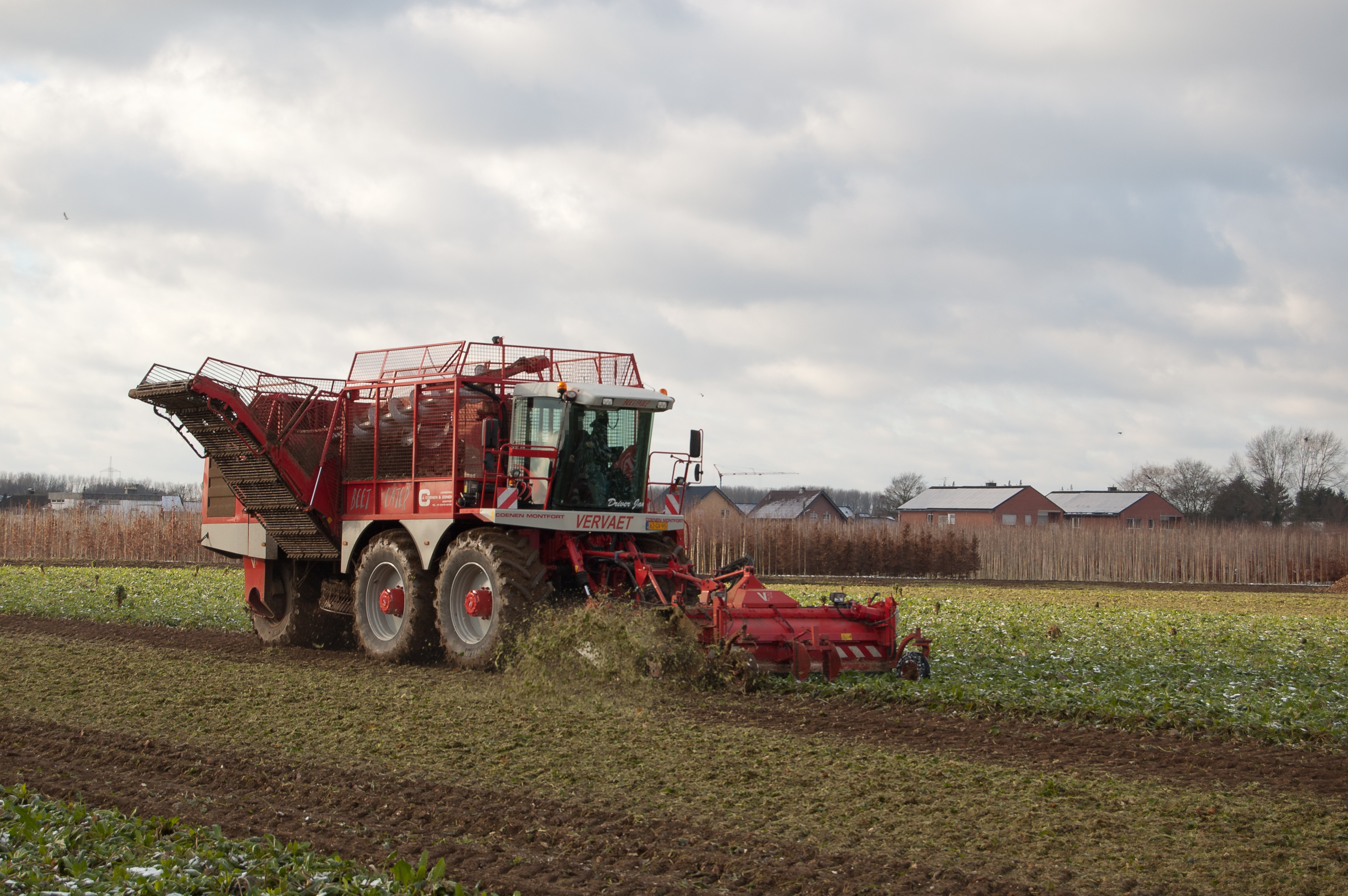 harvest of chicory (Cichorium intybus var. foliosum) in the valley of the river Rur in western germany on 2010-12-15